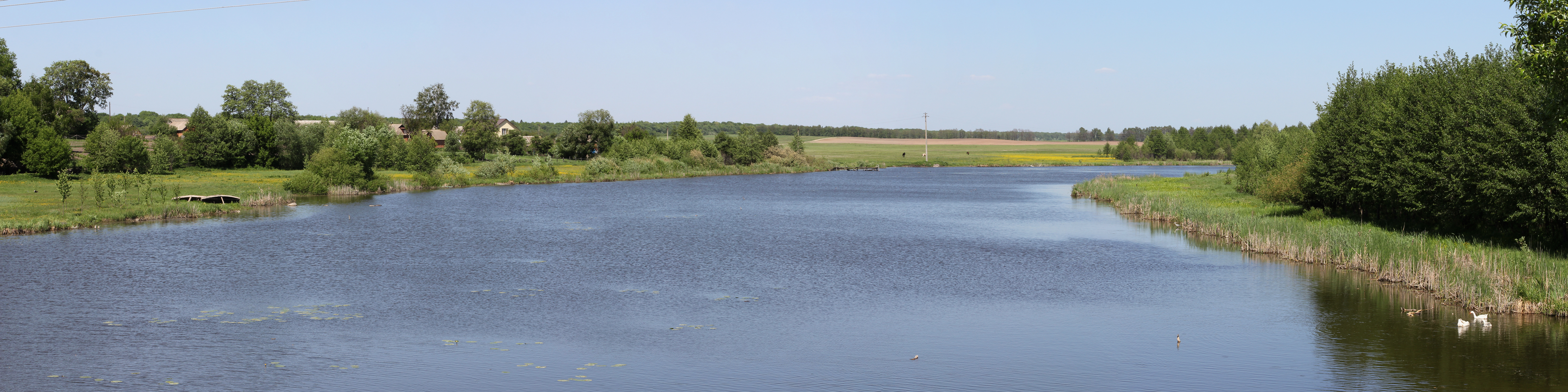 The Desna river, feeder of the Southern Bug, in Ukraine. View from a bridge in Sosonka village.